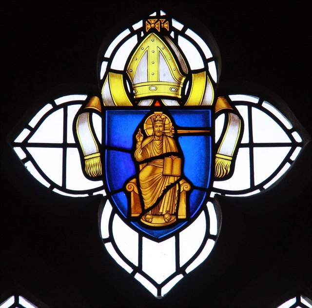 St Cosmas & St Damian, Keymer, Sussex - Window